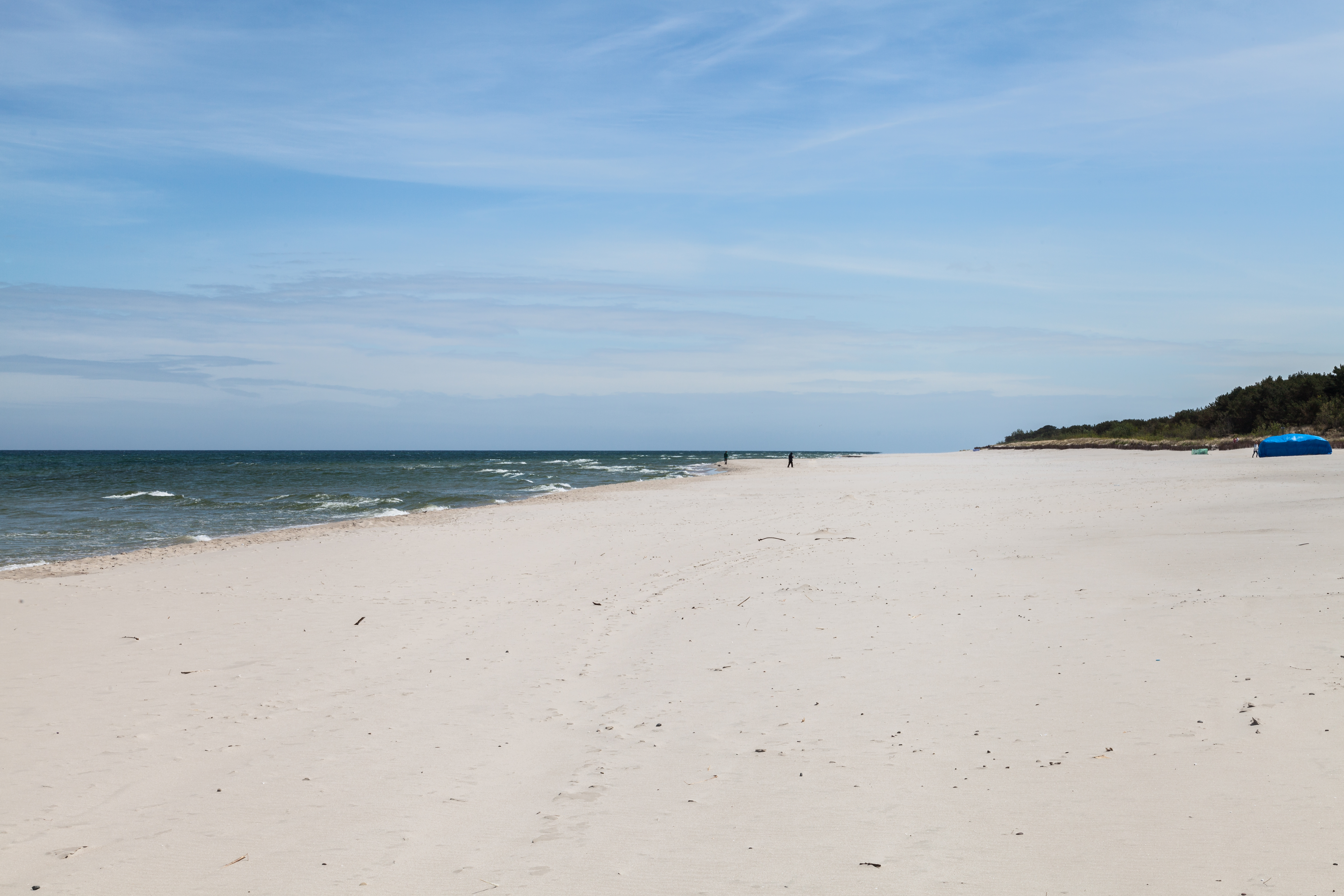 Jurata beach, Hel Peninsula, Poland